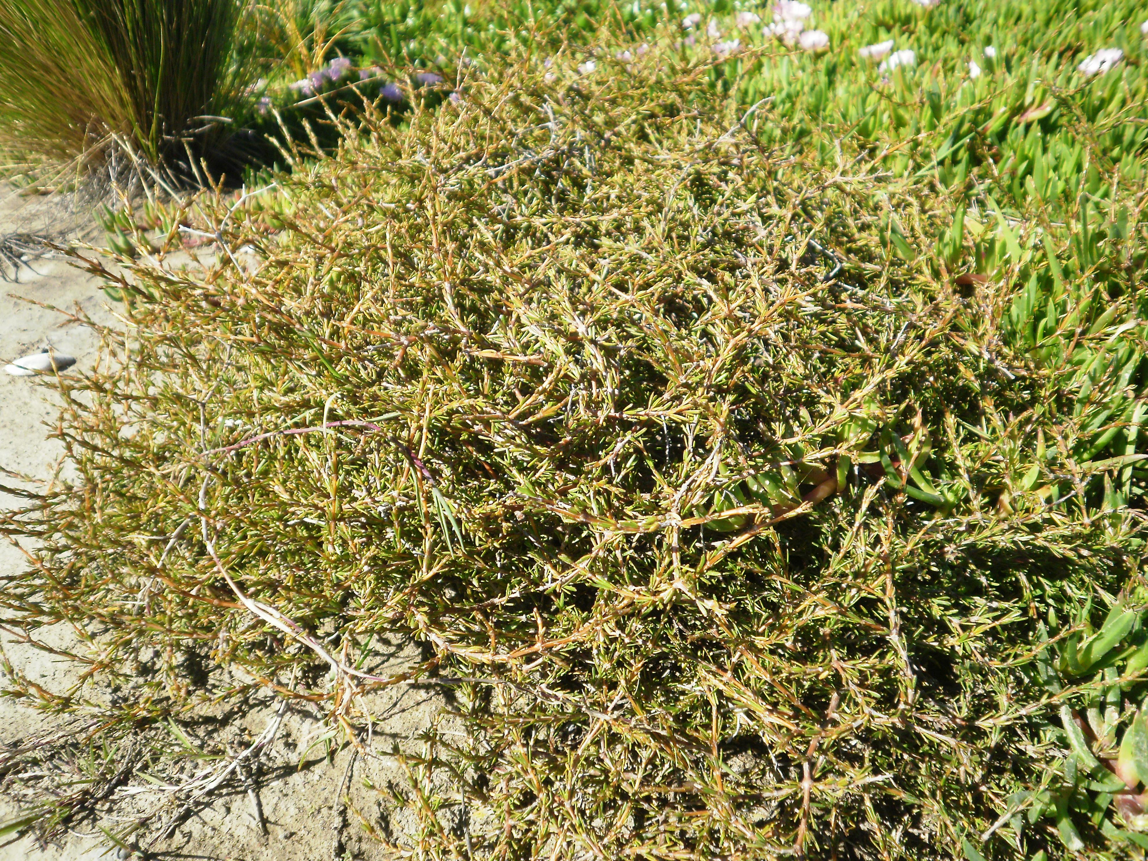 Coprosma acerosa, sand coprosma, on Petone foreshore, Wellington, New Zealand.